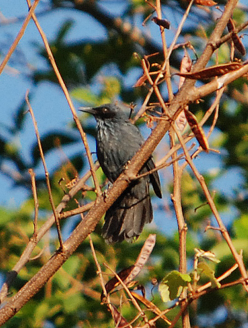 Blue Mockingbird (Melanotis caerulescens) at the spring above Km202, Mx175 north of Oaxaca, Mexico, 080327. Melanotis caerulescens.